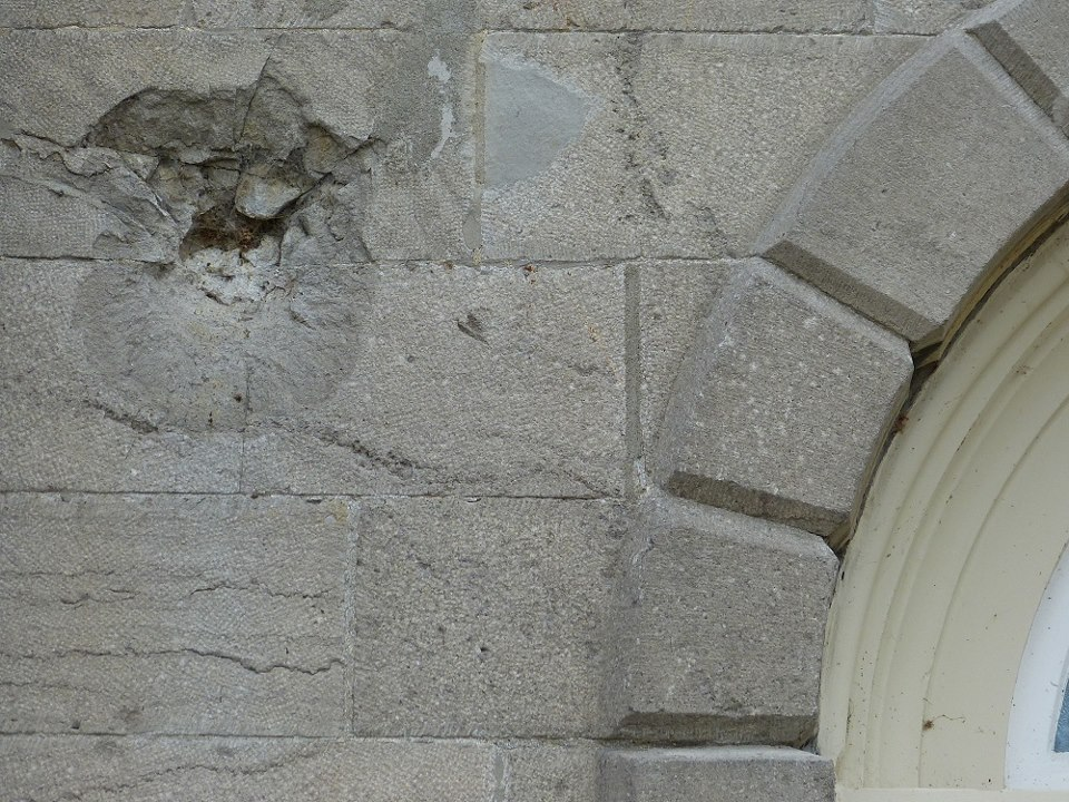 Church in Saint-Eustache, where an important battle of the 1837 Lower Canada rebellion took place. Note the damage on the facade.